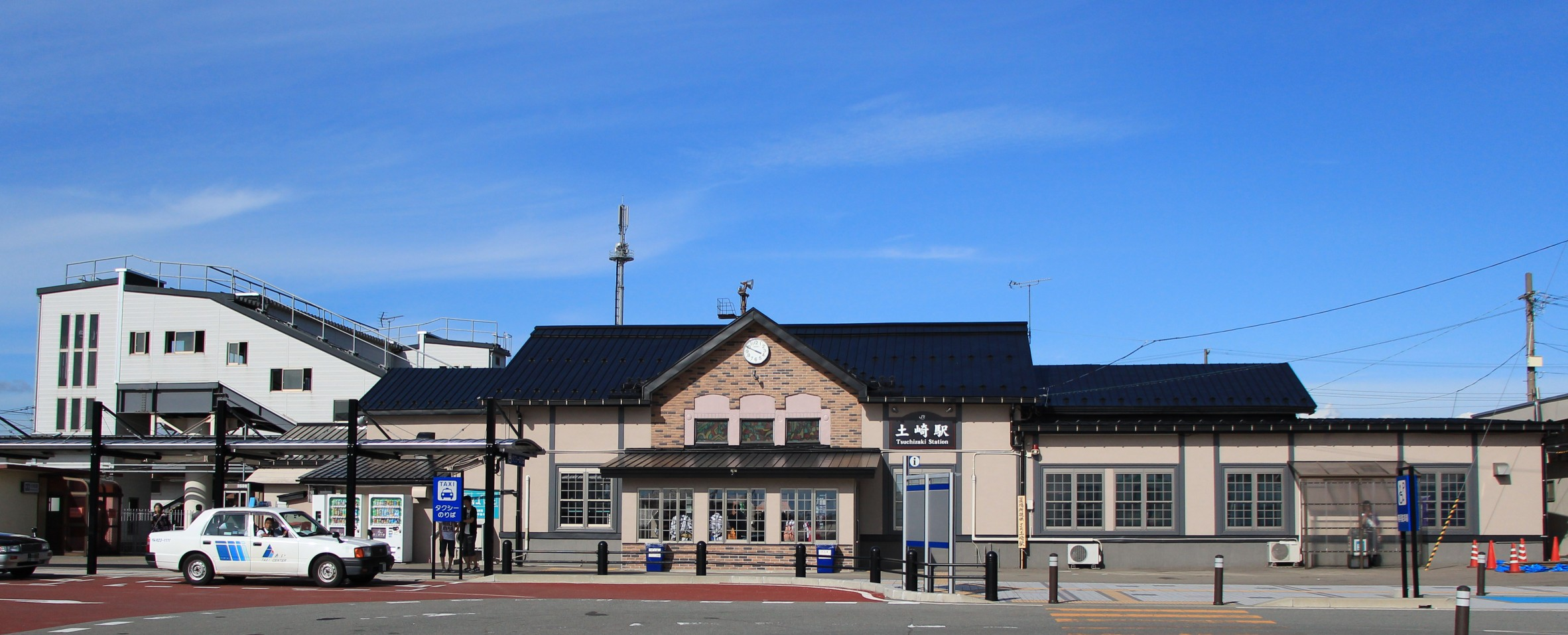 Tsuchizaki station of East Japan Railway Company, renewal in December 10, 2012.